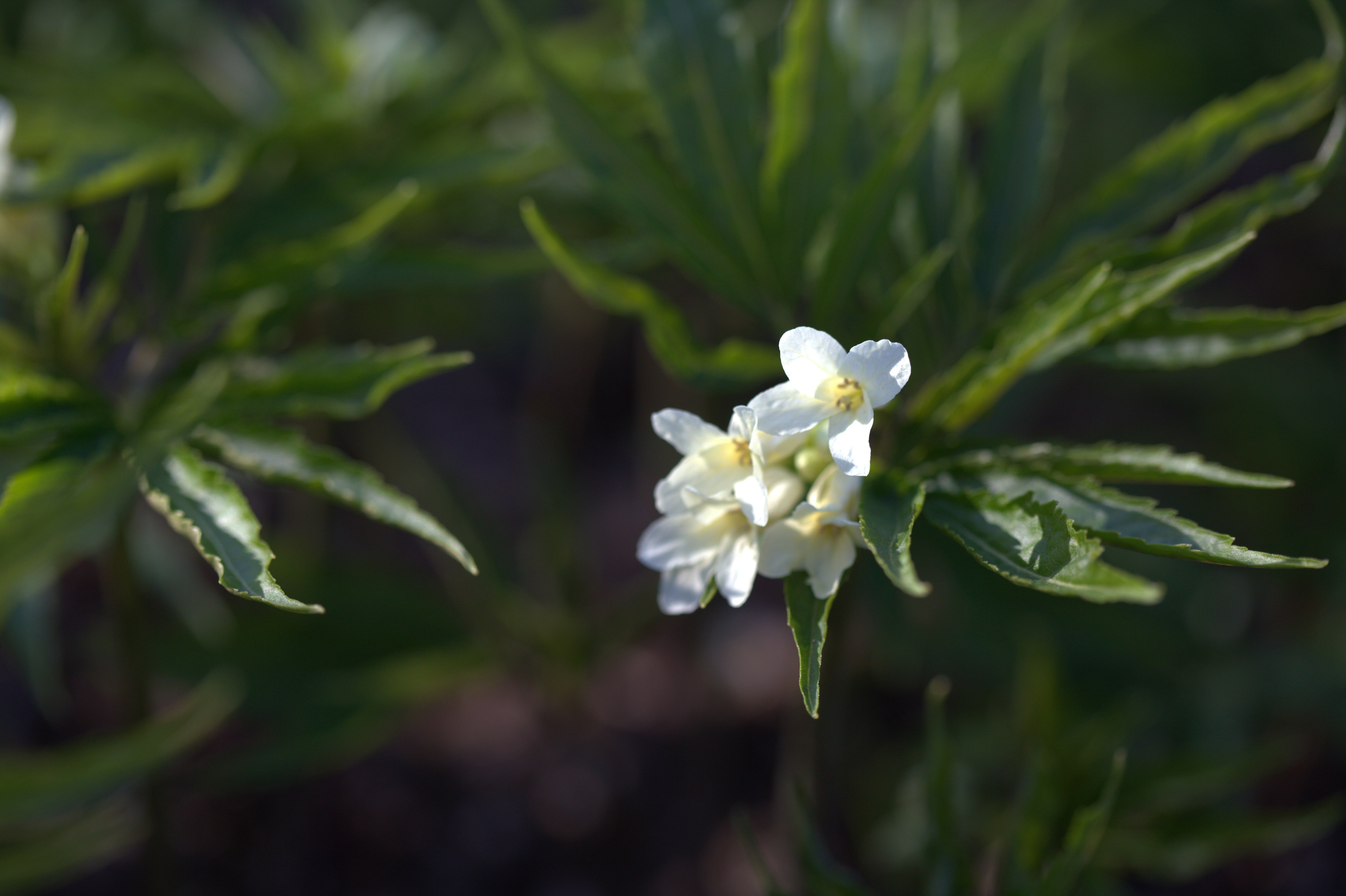 Photo taken at Gothenburg botanical garden. Specimen id: 2006-1961 p G Plant collected in 2006 from a garden in Djupedal.